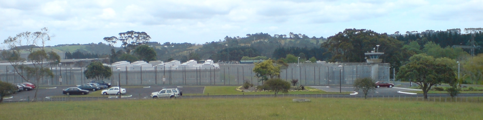 A view over the northern part of the high-security section of Auckland Prison, better known as 'Paremoremo Prison'. North Shore City, New Zealand. View westwards over the prison from a road east of the compound.